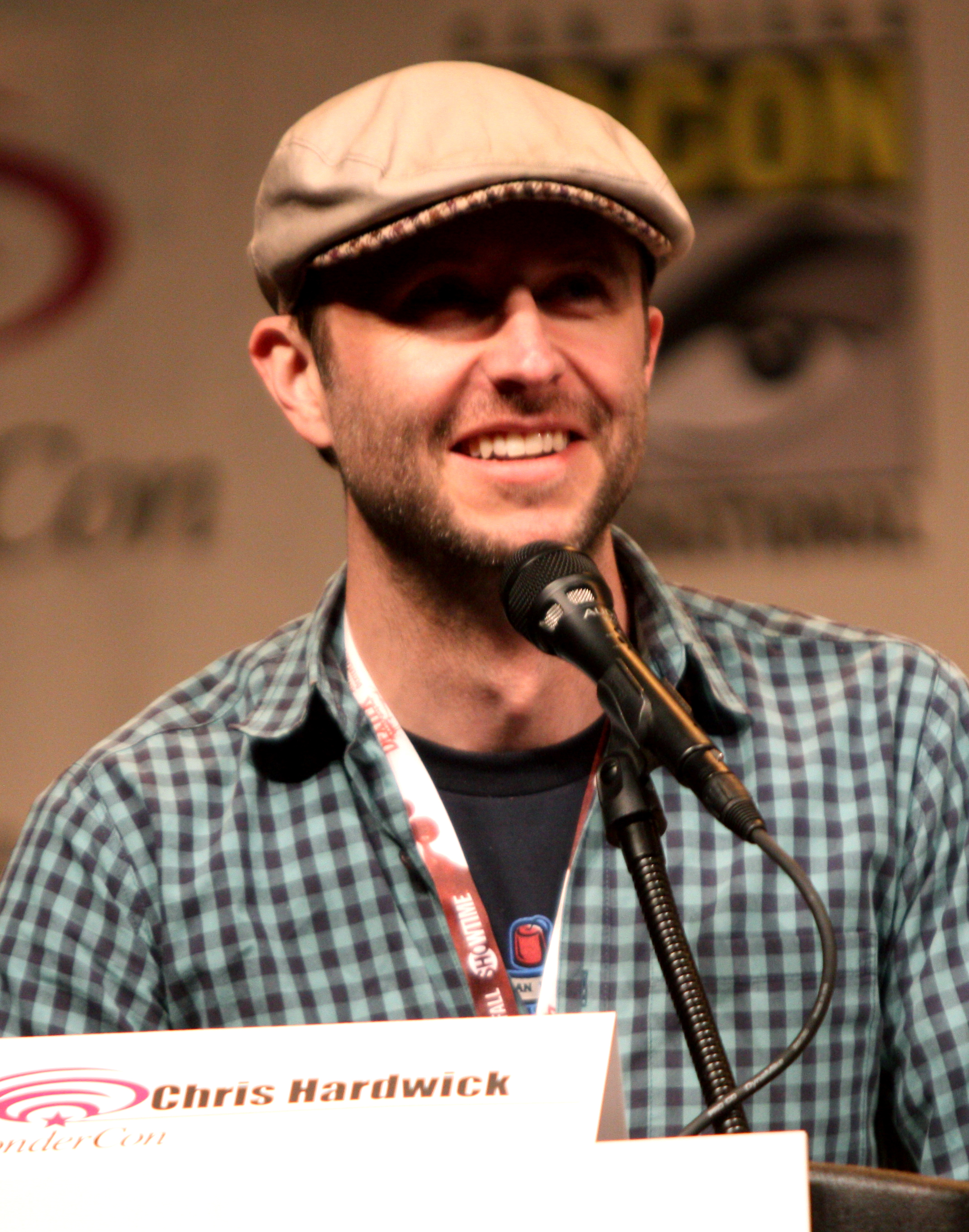 Chris Hardwick speaking at Wondercon 2012 in Anaheim, California on March 16, 2012.